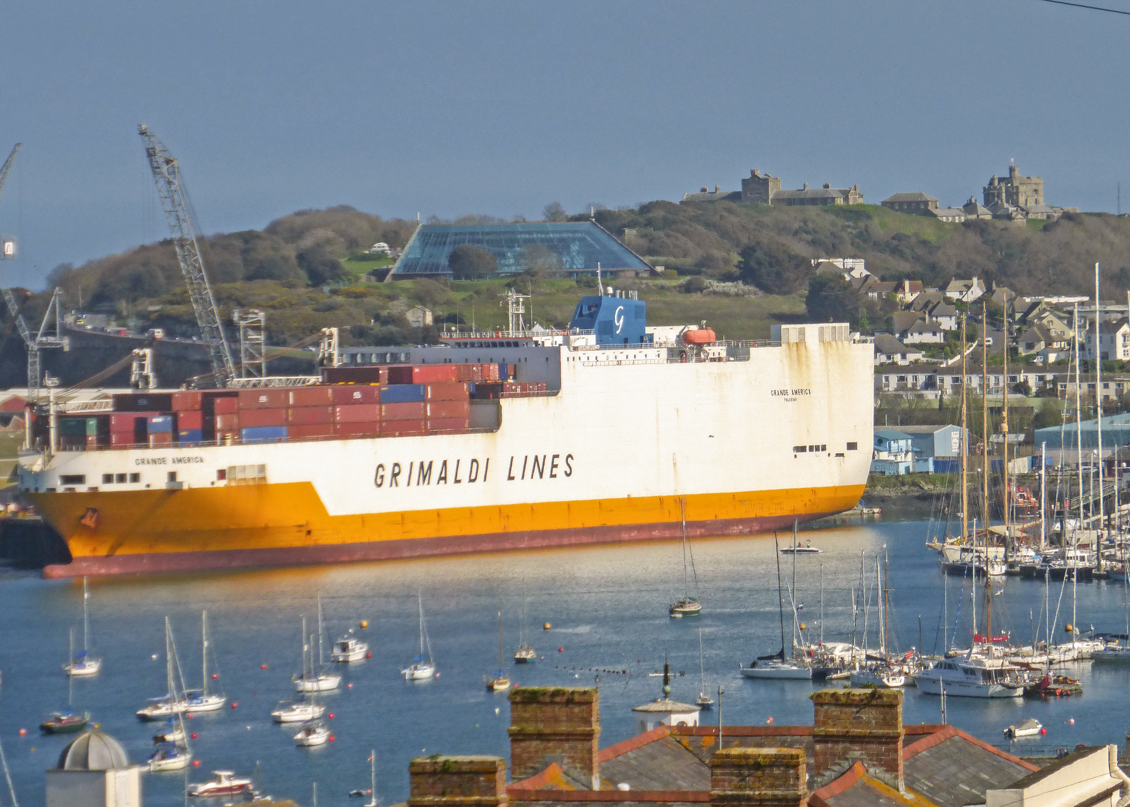 The RoRo ship Grande America of Grimaldi Lines in the port of Falmouth, Cornwall, UK